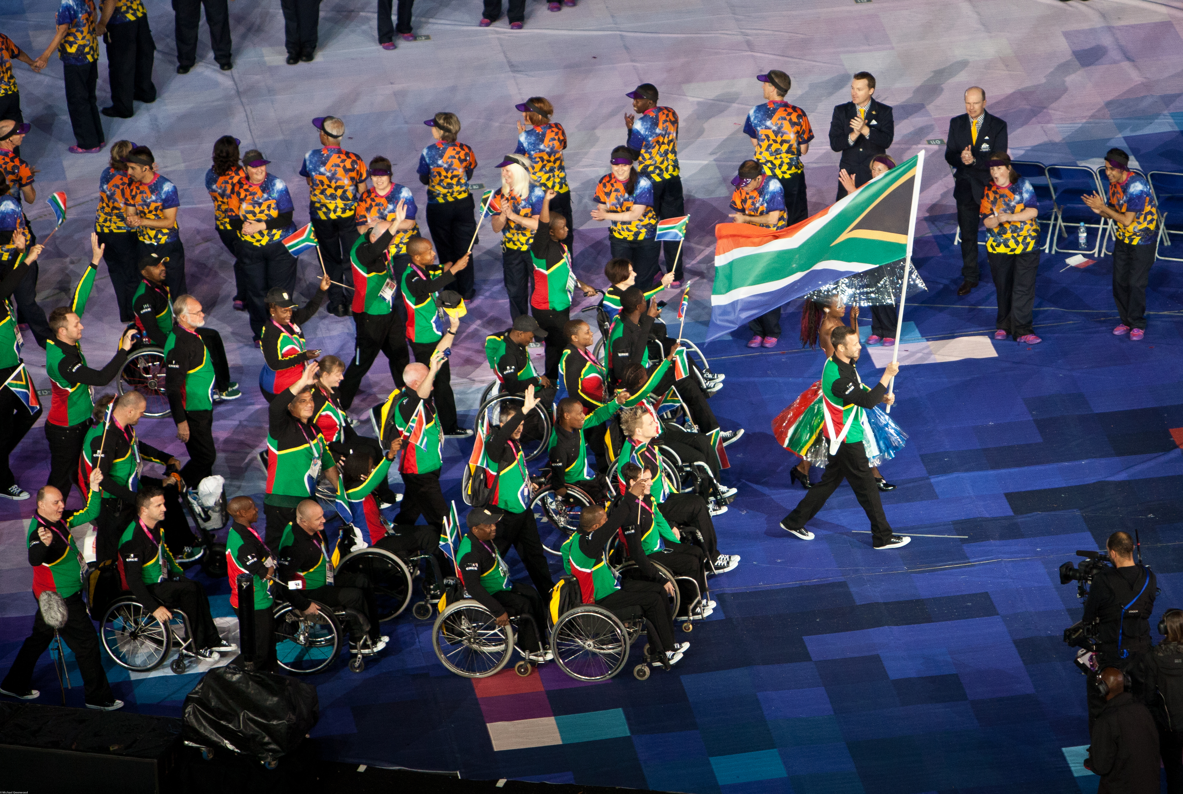 Oscar Pistorius leading South Africa's Paralympic Team during the 2012 Summer Paralympics opening ceremony.